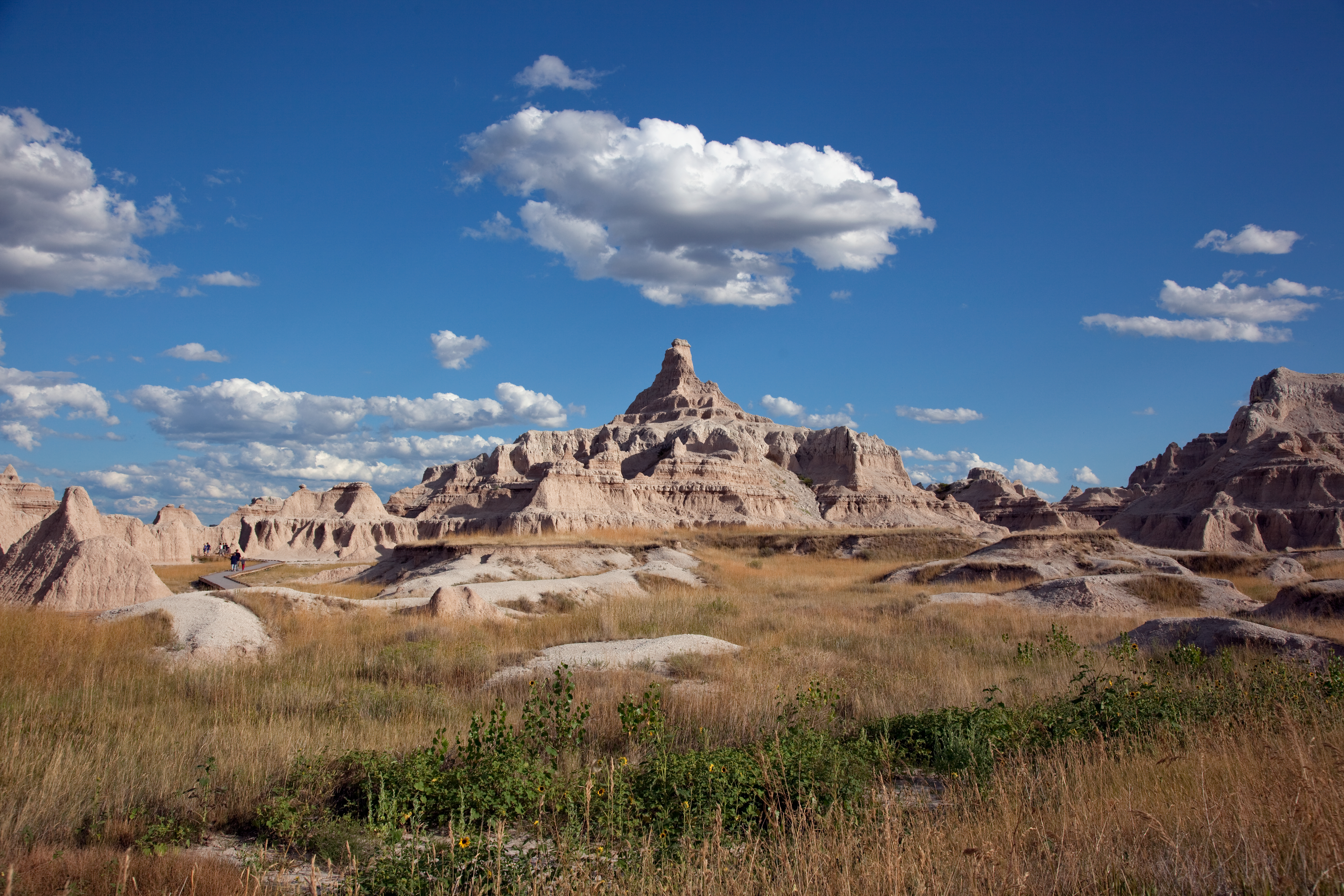 Badlands National Park, South Dakota, USA.